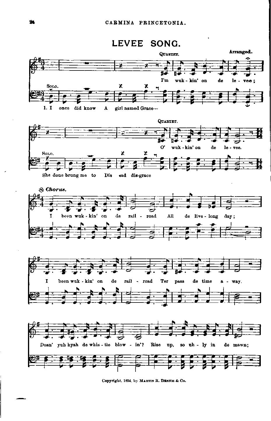 First page of "The Levee Song," later known as "I've Been Working On The Railroad," as published in Carmina Princetonia: The Princeton Song Book (1898)